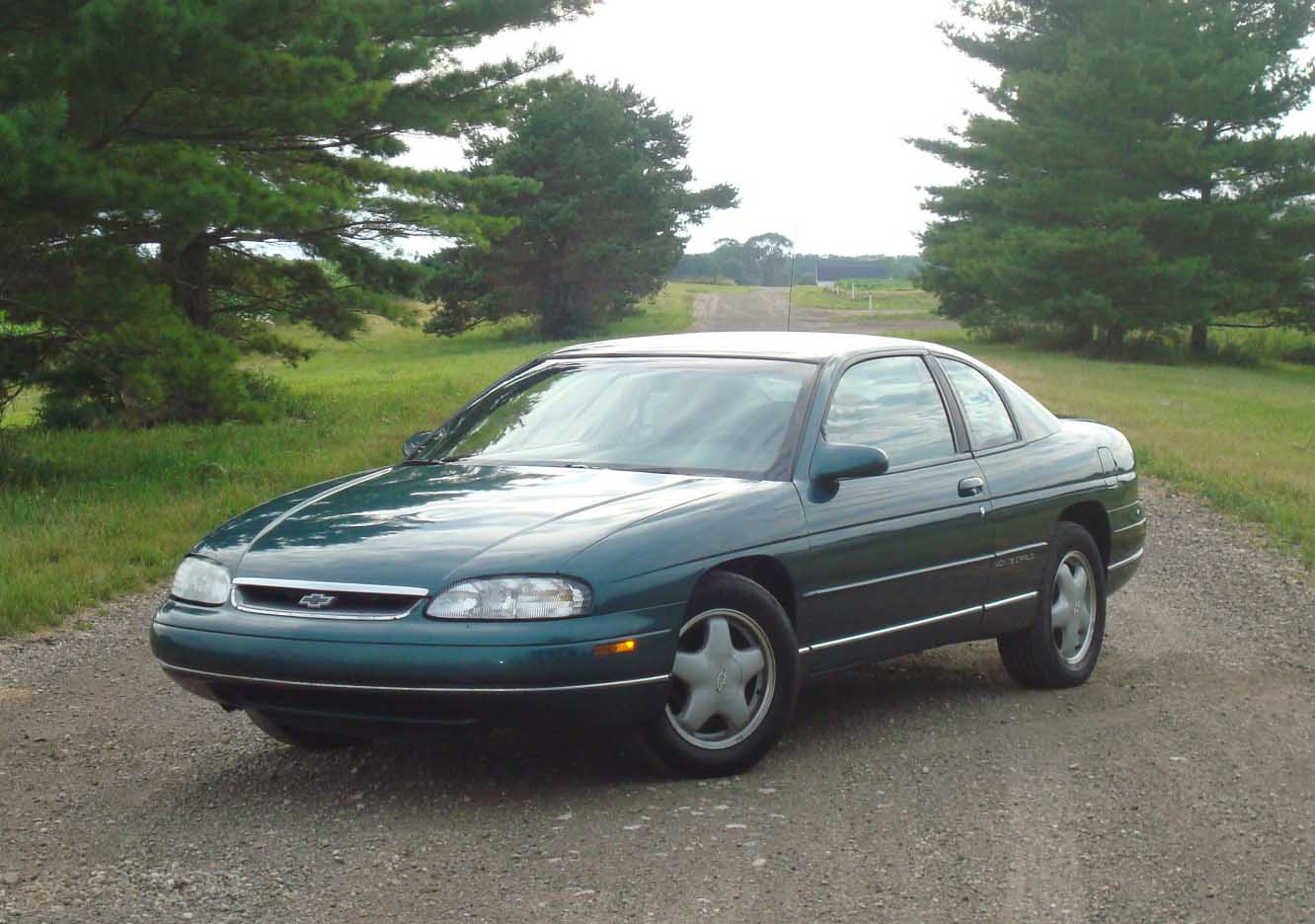 1997 Chevrolet Monte Carlo LS Coupe